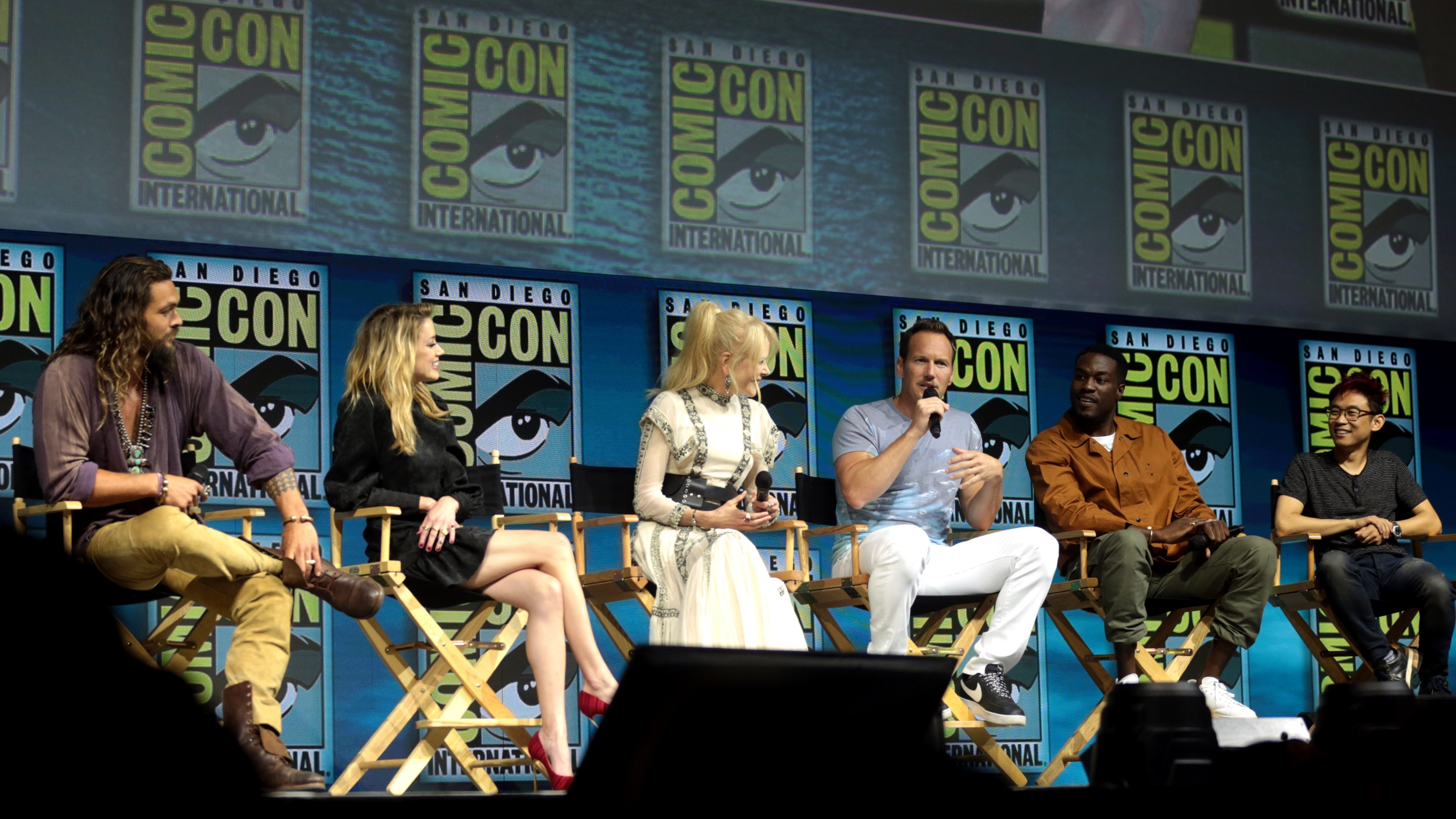 Jason Momoa, Amber Heard, Nicole Kidman, Patrick Wilson, Yahya Abdul-Mateen II and James Wan speaking at the 2018 San Diego Comic Con International, for "Aquaman", at the San Diego Convention Center in San Diego, California.